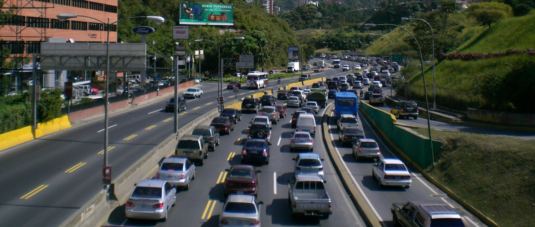 East Highway, Caracas.